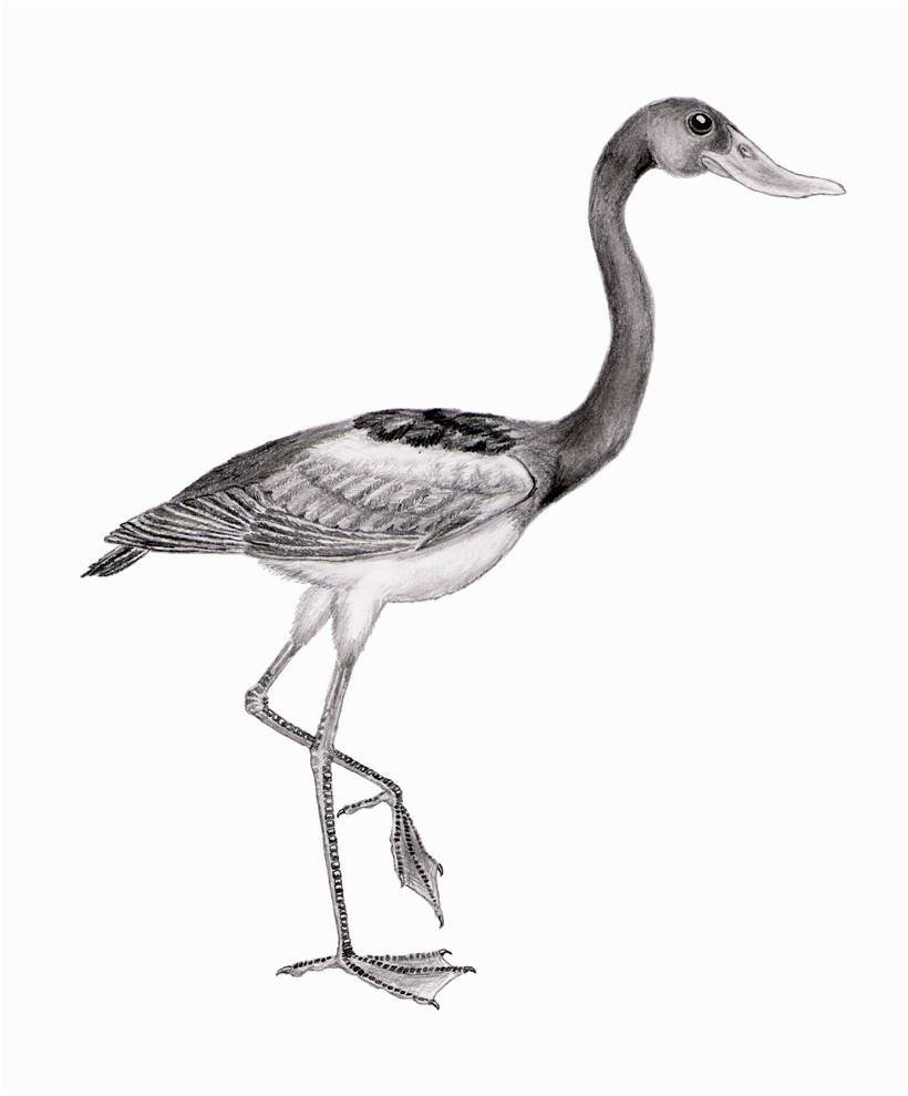 Pencil drawing of Presbyornis pervetus.